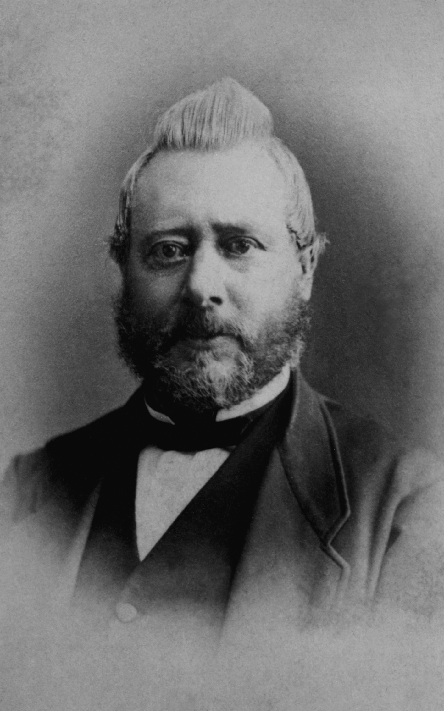 Dr Pieter Bleeker, undated photograph from the Holthuis collection, Naturalis